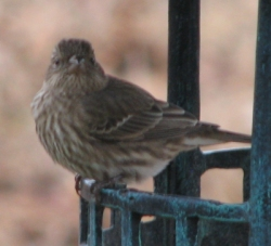 Female House Finch